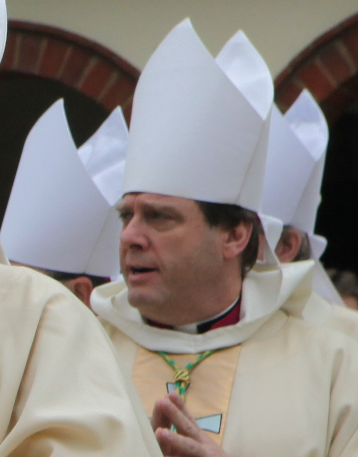 Procession of Bishops at Walsingham